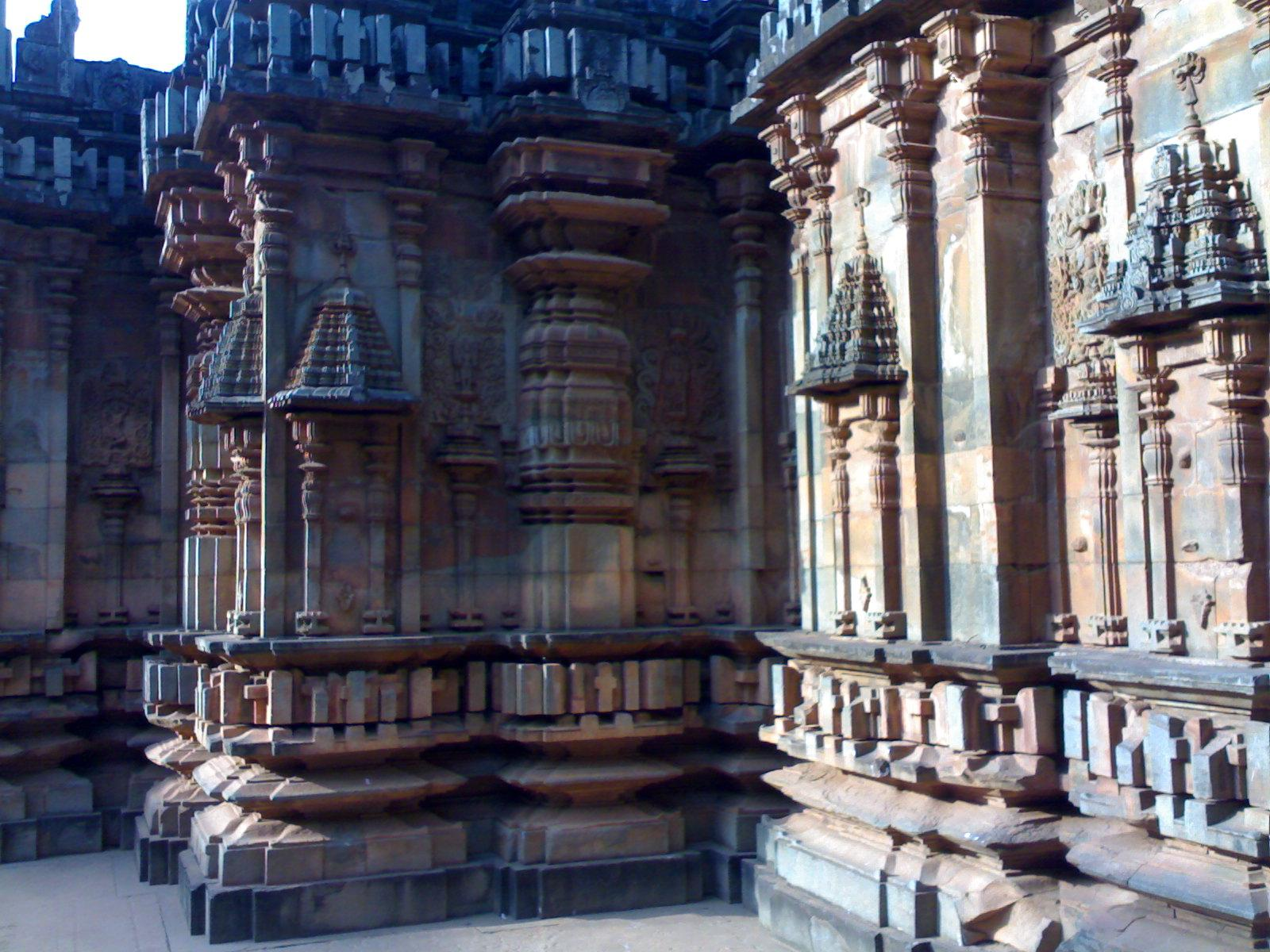 Unkal_Chandramouleshwara Hubli Source and Author : Manjunath Doddamani, Gajendragad / Hubli, Karnataka(North), India.